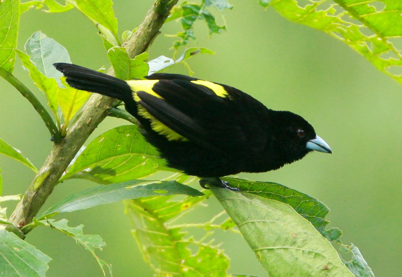 Lemon-rumped tanager (Ramphocelus icteronotus), Pajaro Jumbo Reserve, Ecuador